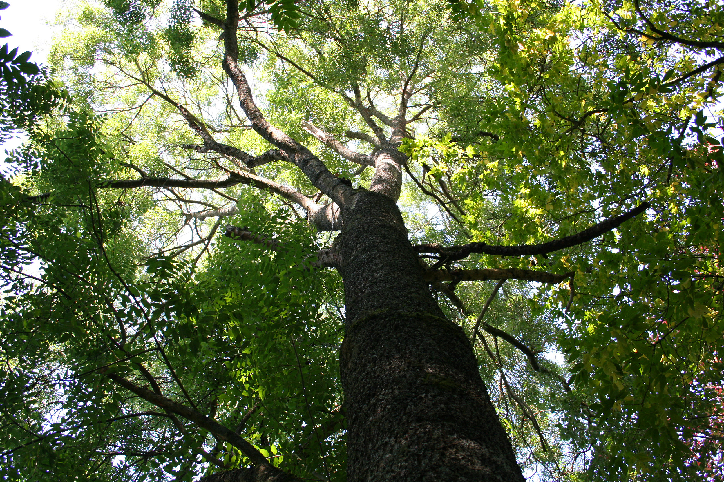 Common Ash Fraxinus excelsior circumference at soil : 191 cm - (2008) Planting date : 1962 Precise location : Arboretum Robert Lenoir (S45 - 7) - Rendeux (Belgium). Walon: Frin .ne Fraxinus excelsior Circonférence mèsurée au pîd di l'aube : 191 cm - (2008) Annéye do plantis' : 1962 Place rècta : Arboretum Robert Lenoir (S45 – 7)) - Rindeu (Bèljike).